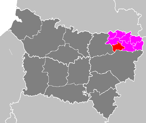 Maps of arrondissements and cantons of France: Arrondissement de Vervins - Canton de Sains-Richaumont.PNG